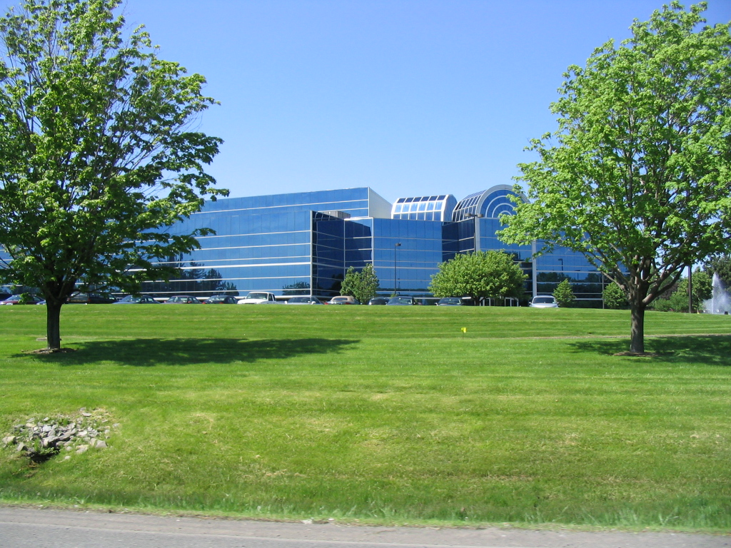 photo of an Office Building built in the 90s in DeWitt, NY, taken by me on May 19, 2004